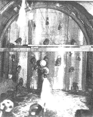 Bulkhead used for cement injection in service bore of Kammon railway tunnel